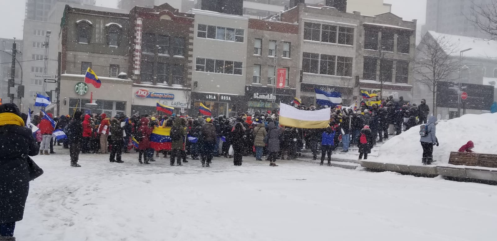 Support for Guaidó in Montréal on February 2nd